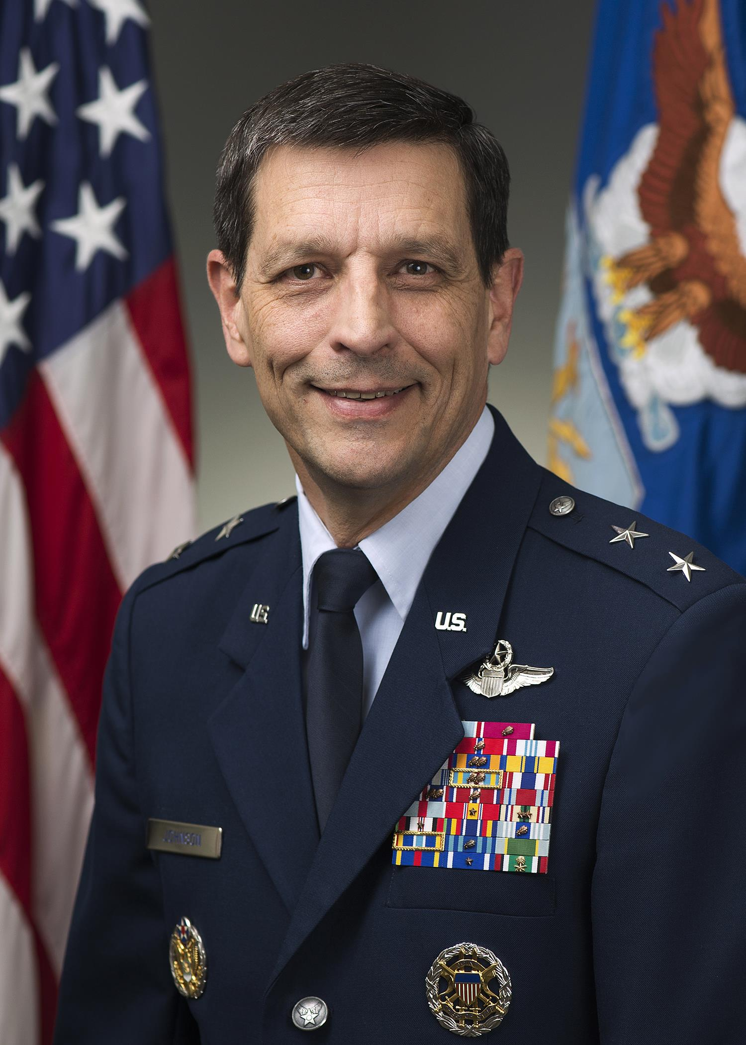 Maj. Gen. Paul T. Johnson is Director, Operational Capability Requirements, Deputy Chief of Staff for Strategic Plans and Requirements, Headquarters U.S. Air Force, Washington, D.C.